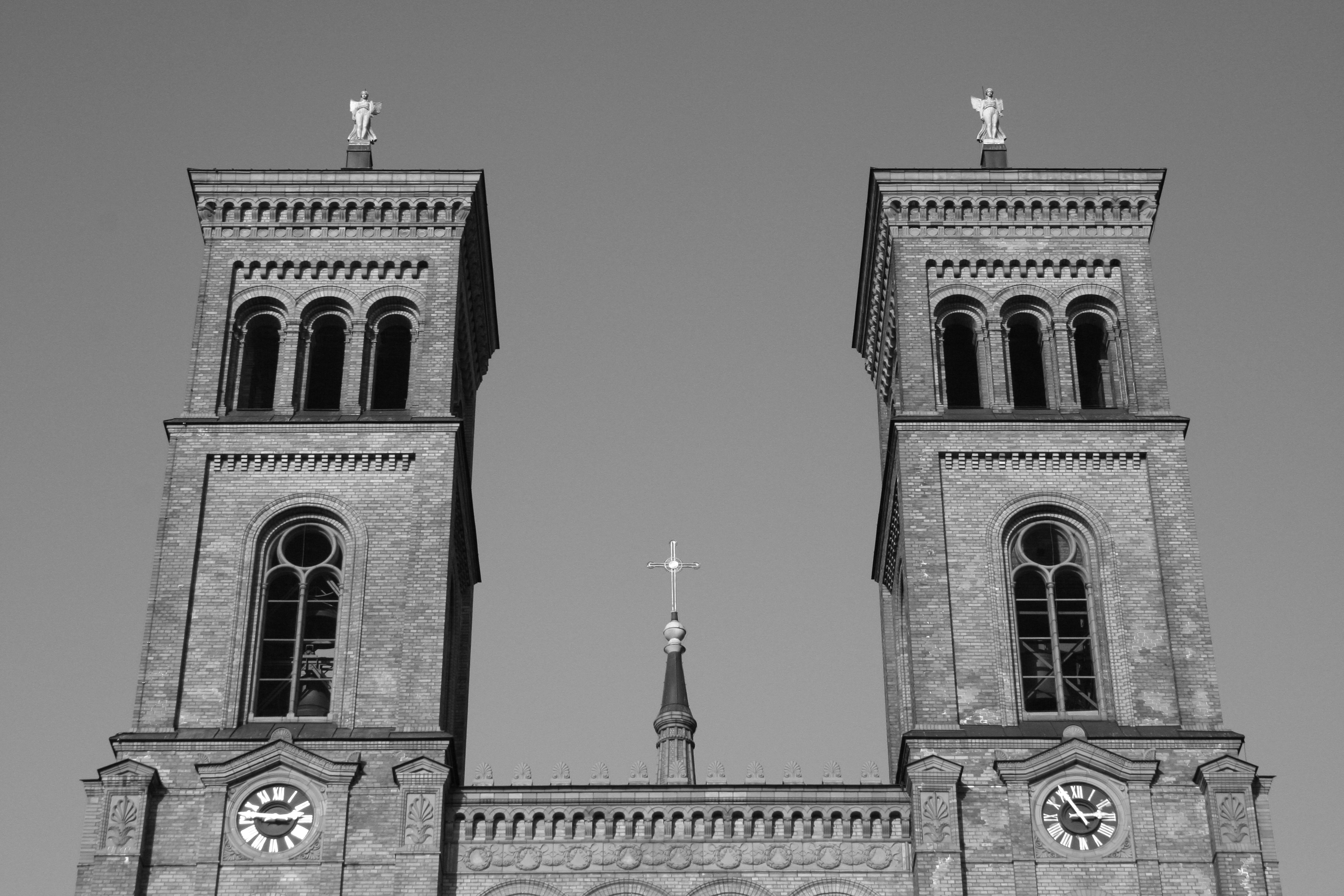 St.-Thomas-Kirche in Berlin (Mariannenplatz), b/w picture